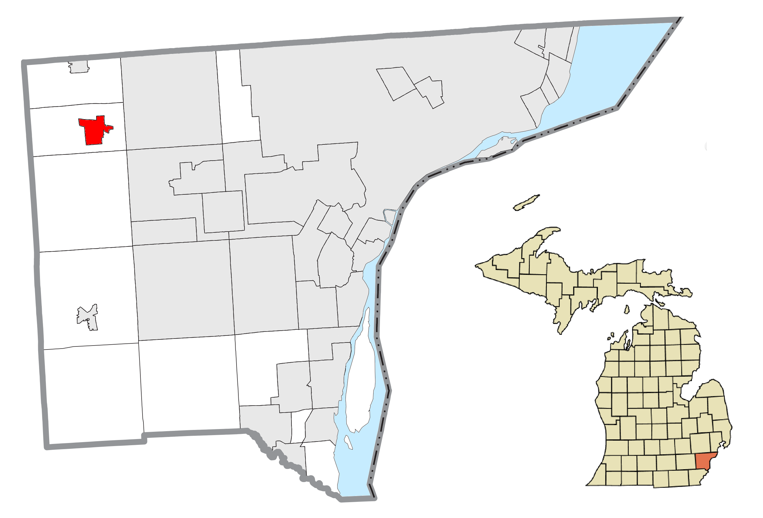 Plymouth, MI